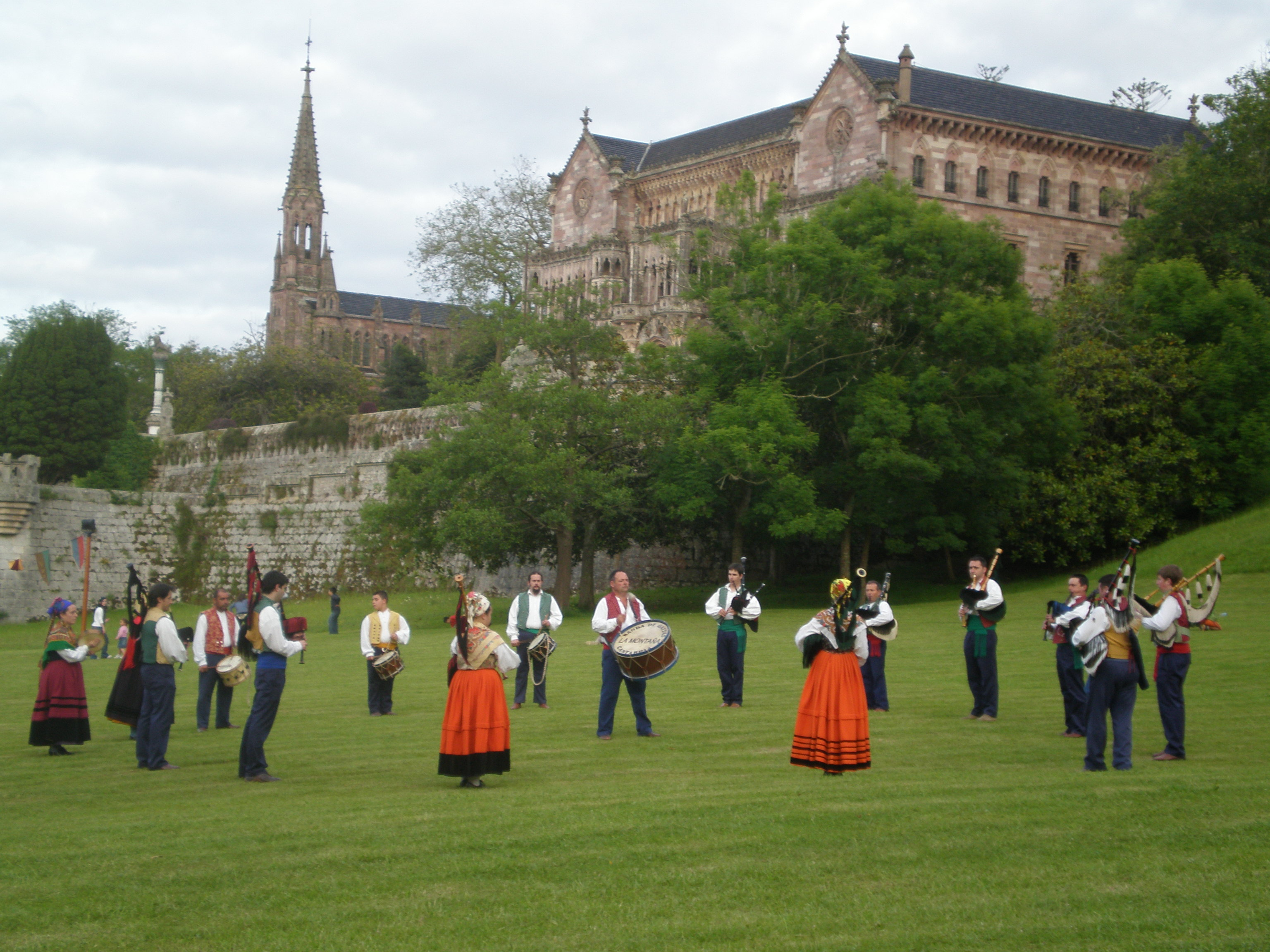 Band of Pipers "La Montaña" playing in Comillas, Cantabria, Spain. At the bottom the "Palacio de Sobrellano".